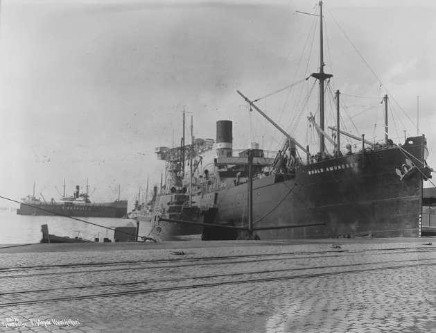 Norwegian whaling factory Roald Amundsen (III), ex. Cape Breton (1904), in Kristiania (Oslo) 1924